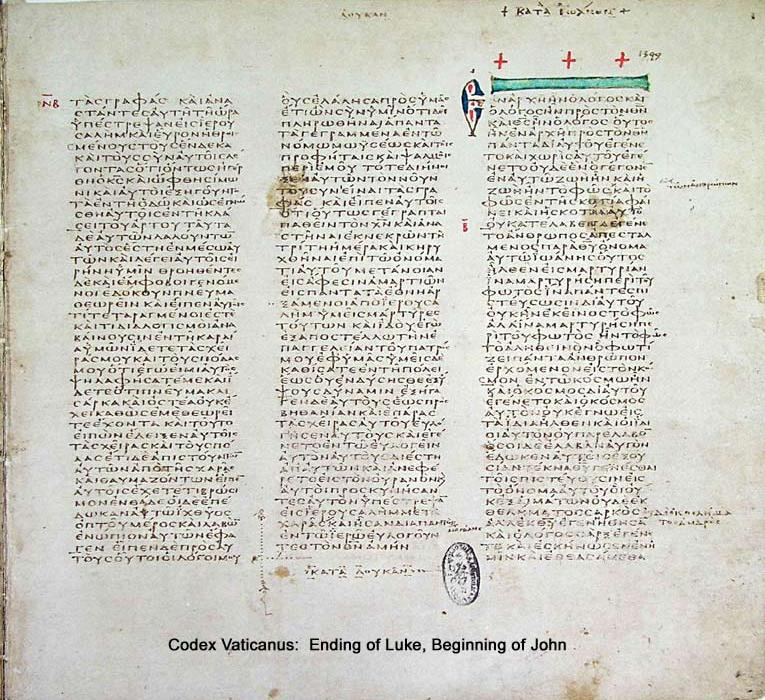 Ending of Luke and Beginning of John in Codex Vaticanus, manuscript of New Testament written on vellum in elegant uncial letters